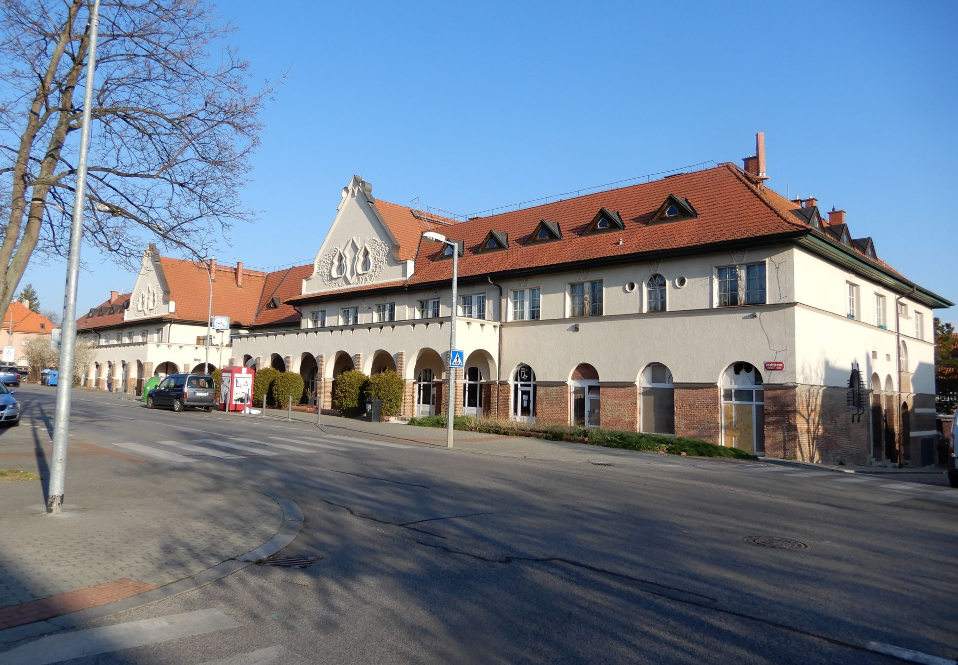 Ořechovka, central house Cons. Num. 250 in the street Na Ořechovce, arch. Jaroslav Vondrák